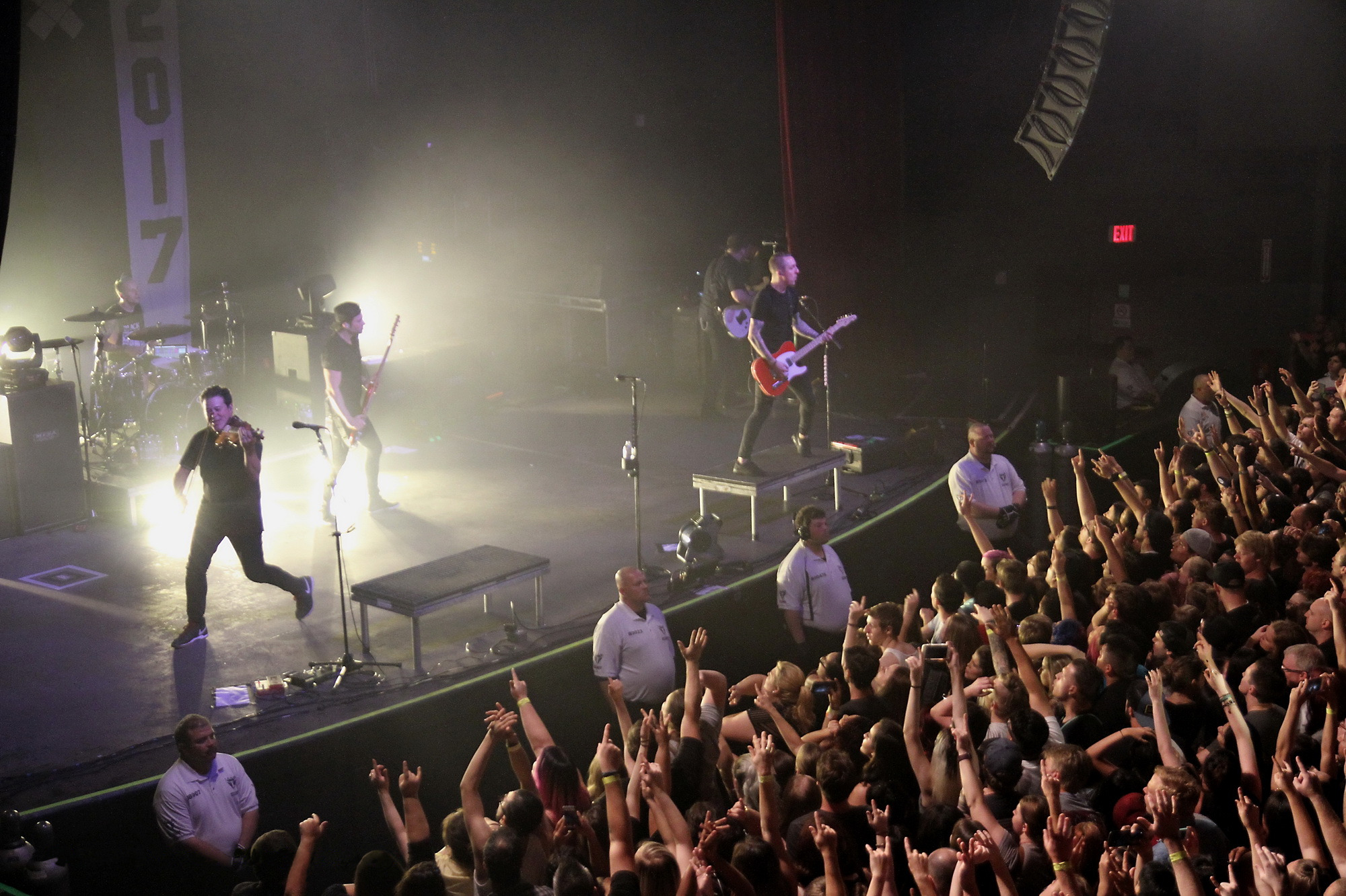 Yellowcard last show in Tempe AZ 3/22/17